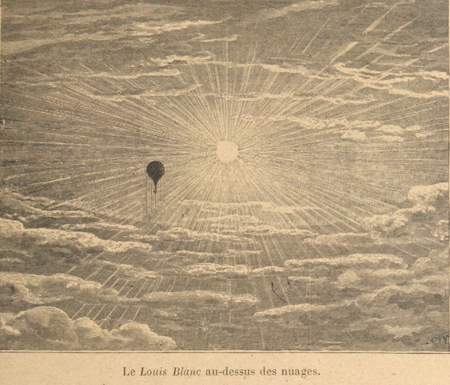 Drawing depicting the departure of the Louis Blanc, one of the 66 balloon mail that left Paris during the Siege of Paris (1870-71). The Louis Blanc was the 10th sent. Pilot: Eugène Farcot.